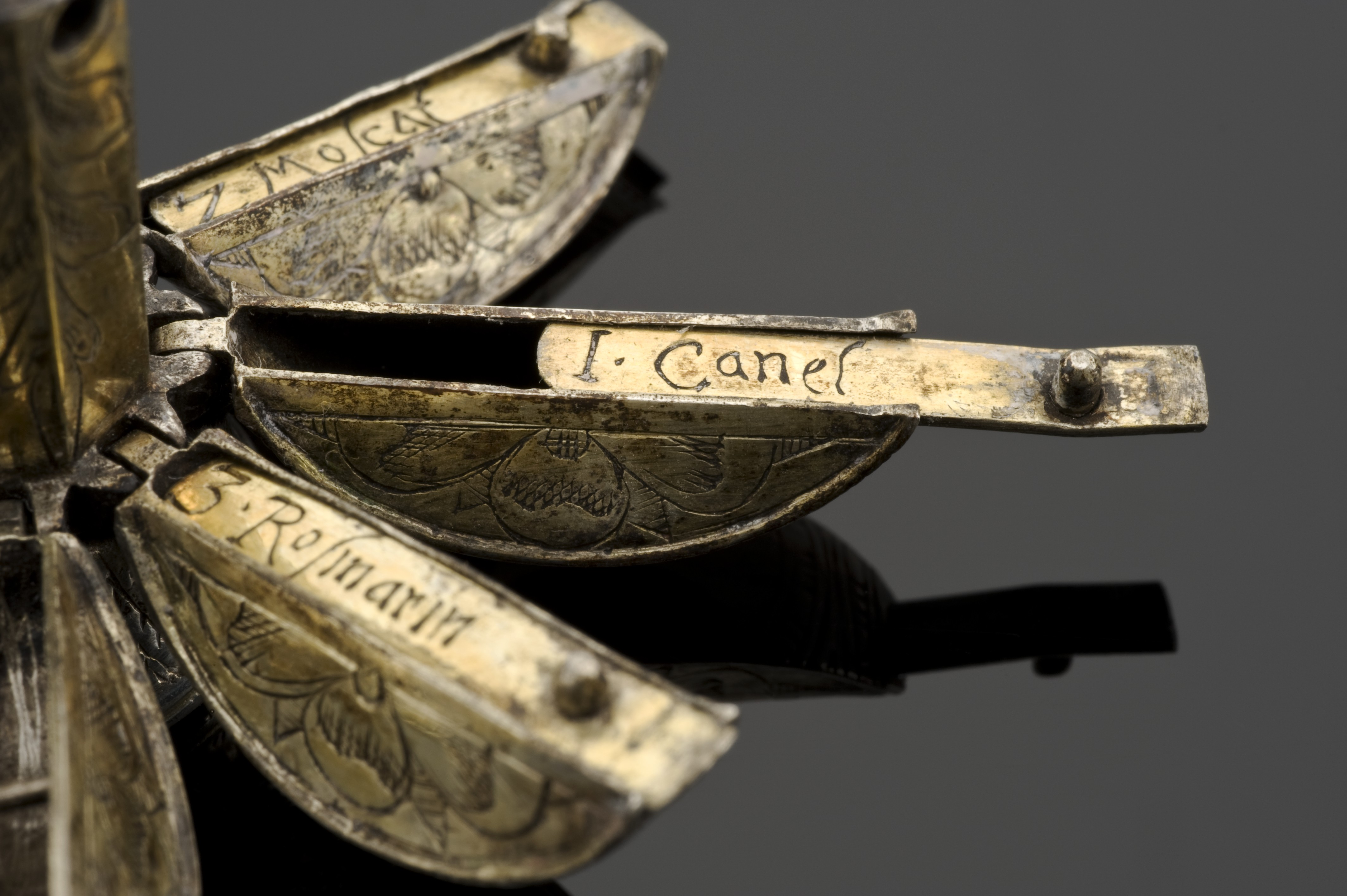 A small selection of pomanders of different shapes and construction. A629413, detail view of draw. Graduated black perspex background. Wellcome Images